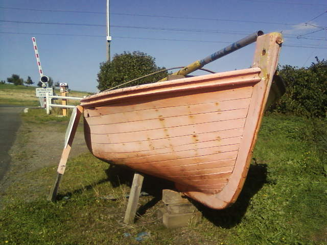 hull of paimpolais. wooden boat constructed at Paimpol (French) in 1967 at shipyard "chantier Raynaud" named Filovent SM402890